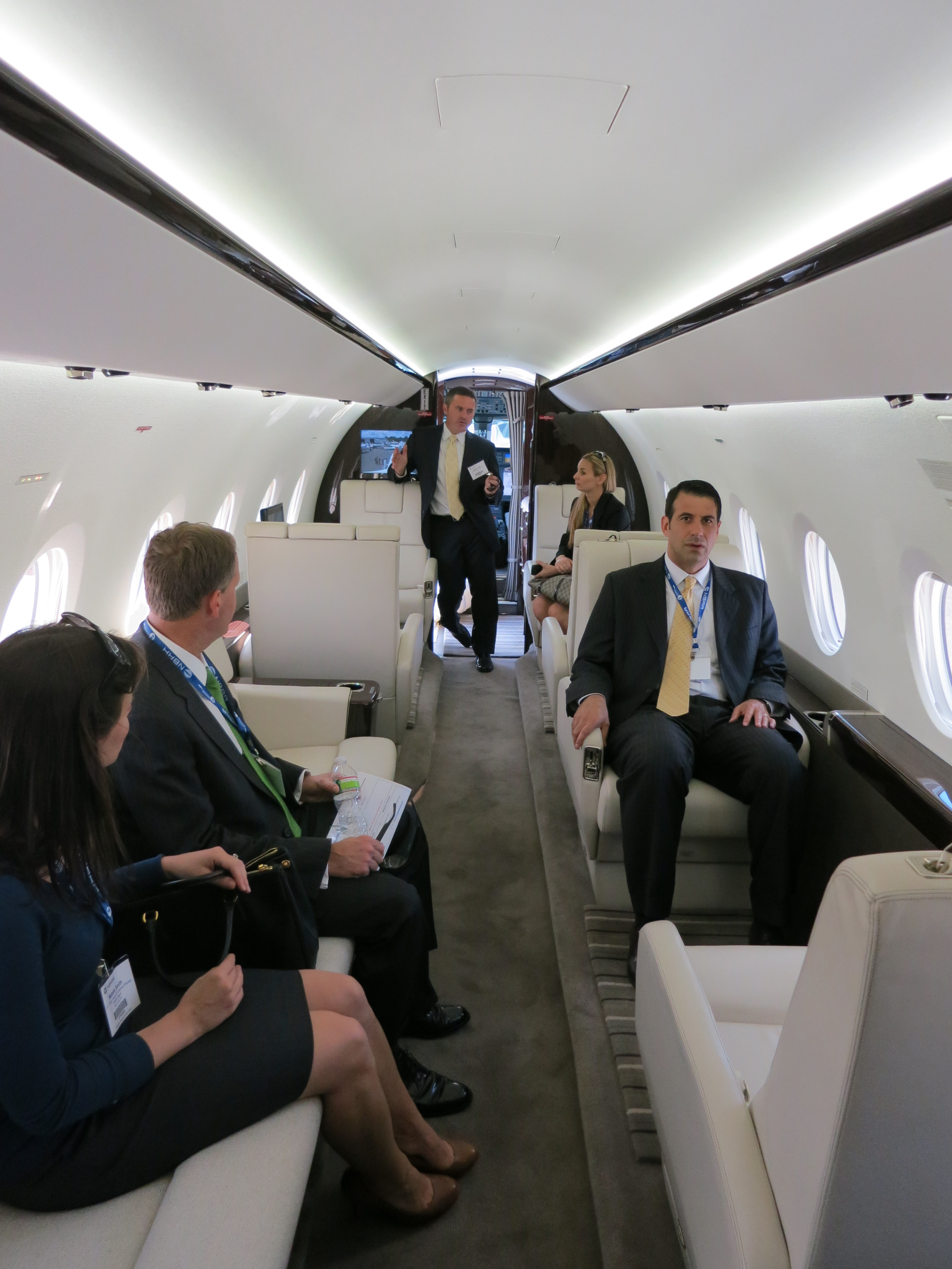 Gulfstream G280 cabin with passengers